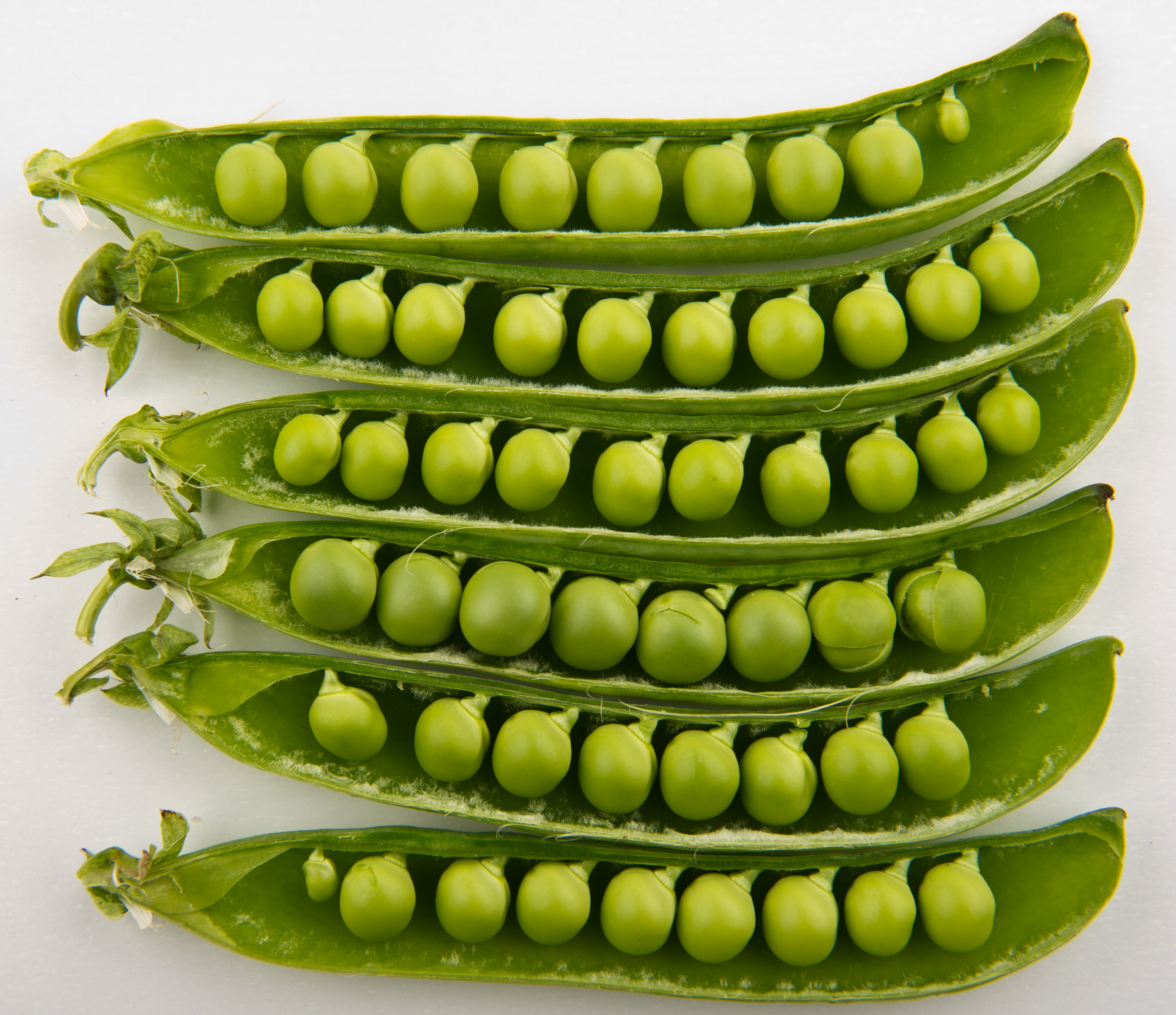 Studio photo of peas in their pods.